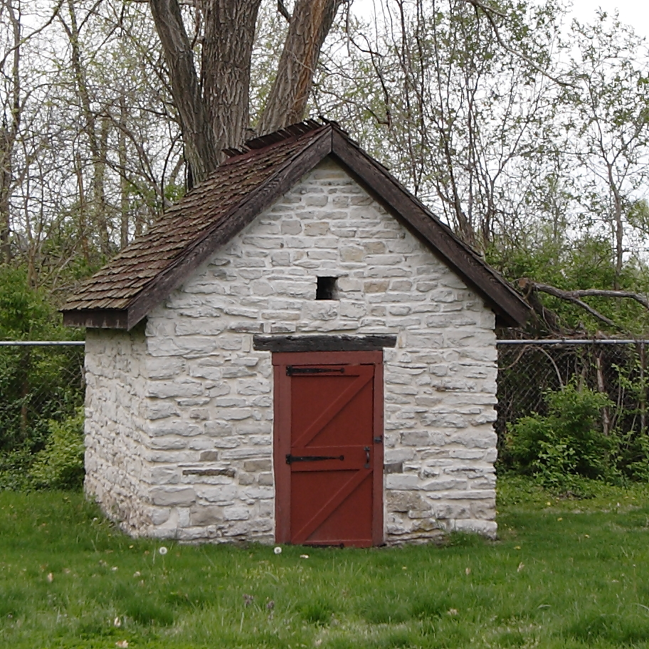 Nicholas Jerrot Mansion's wellhouse, Cahokia, Illinois.